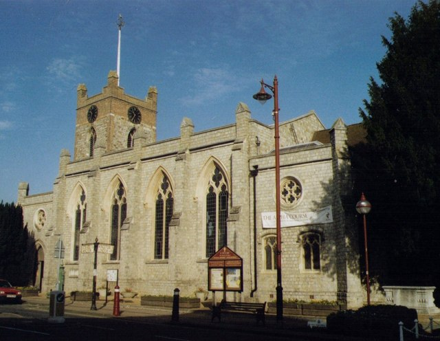 St Peter, Chertsey Grade 2* listed building erected in the 13th century.